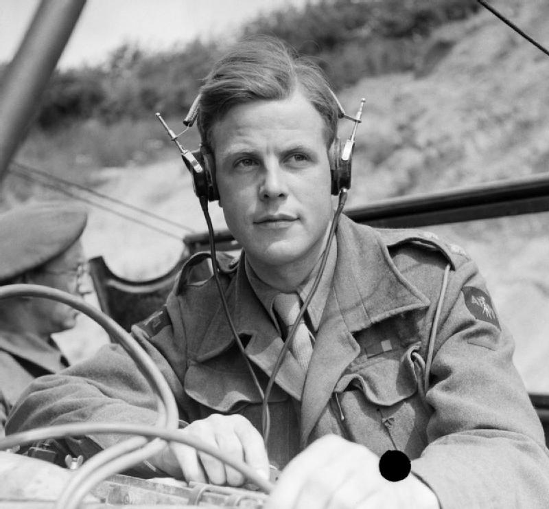 Lieutenant Peter Handford, a sound recordist with the Army Film Unit, poses with his equipment after the end of hostilities in 1945. Lieutenant Peter Handford, the Army Film Unit’s only sound recordist in North West Europe, poses with his equipment after the end of hostilities in 1945. The recording of sound in the field was difficult with the equipment then available.